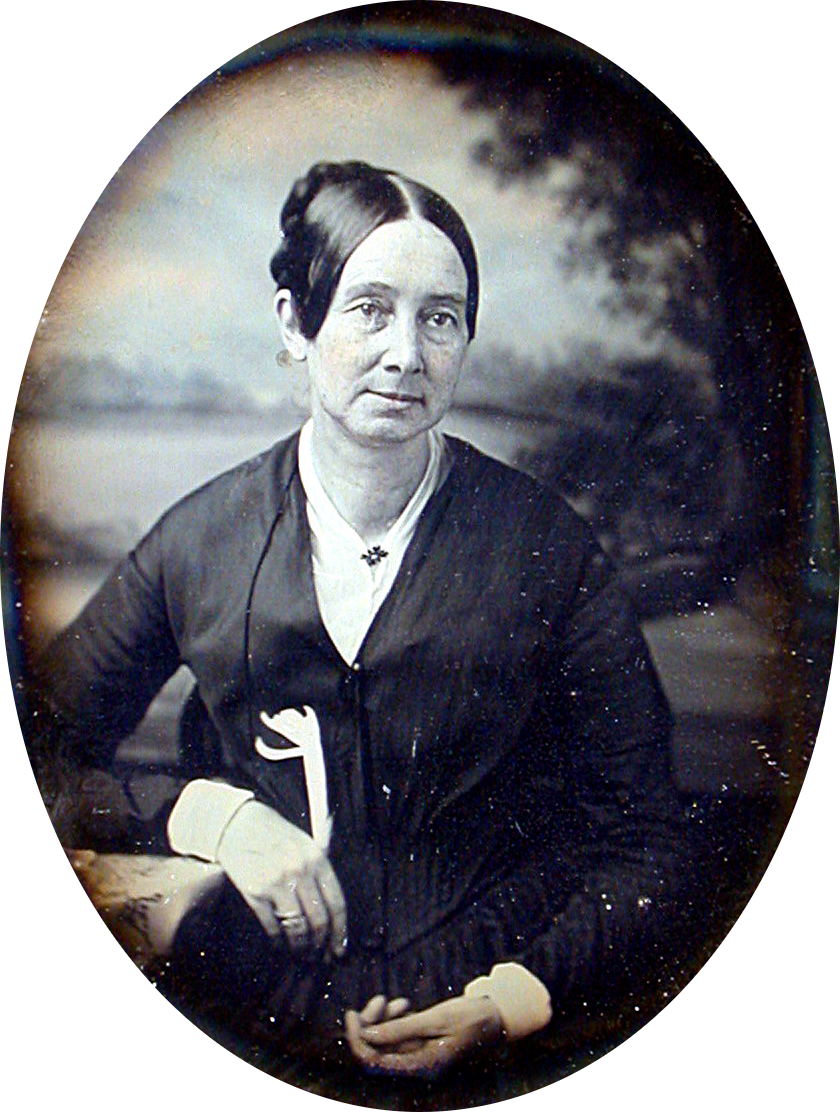 Ninth plate daguerreotype of Dorothea Lynde Dix.